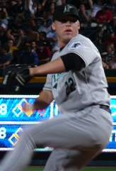 Picture I took of Matt Lindstrom on 6-5-07 22:51, 7 June 2007 . . Chrisjnelson . . 164×241 (86,299 bytes)